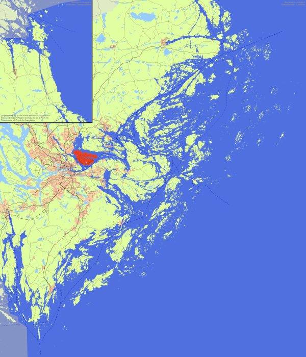 Location of the island Lidingö